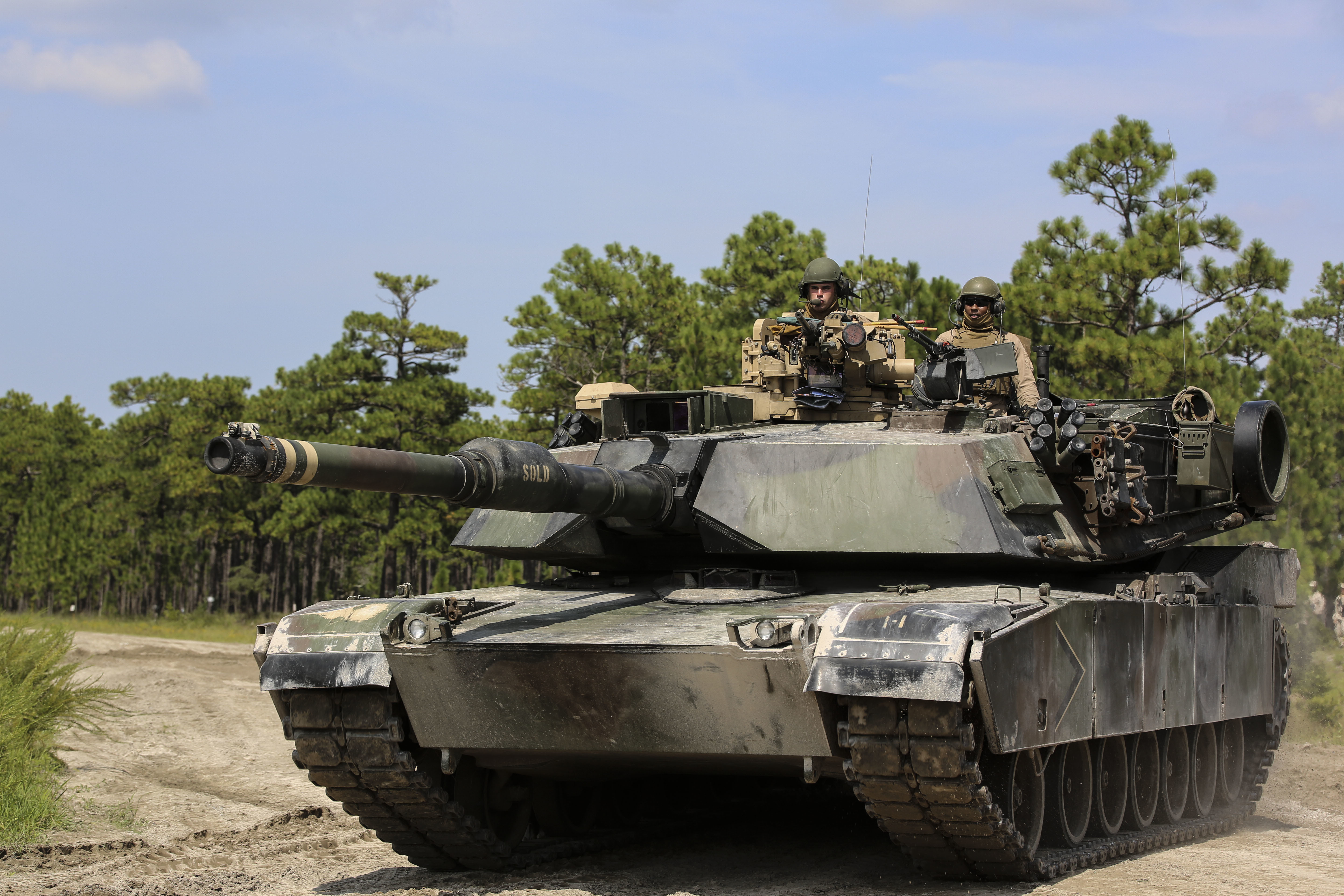 Marines with Alpha Company, 2nd Tank Battalion, arrive at Landing Zone Dodo to meet Marines with Golf Company, 2nd Battalion, 2nd Marine Regiment, during an integrated exercise at LZ Dodo, Camp Lejeune, N.C., Sept. 2, 2015. The purpose of the exercise was to allow Marine infantry and tankers to work together. (U.S. Marine Corps photo by Cpl. Paul S. Martinez/Released) Unit: II Marine Expeditionary Force